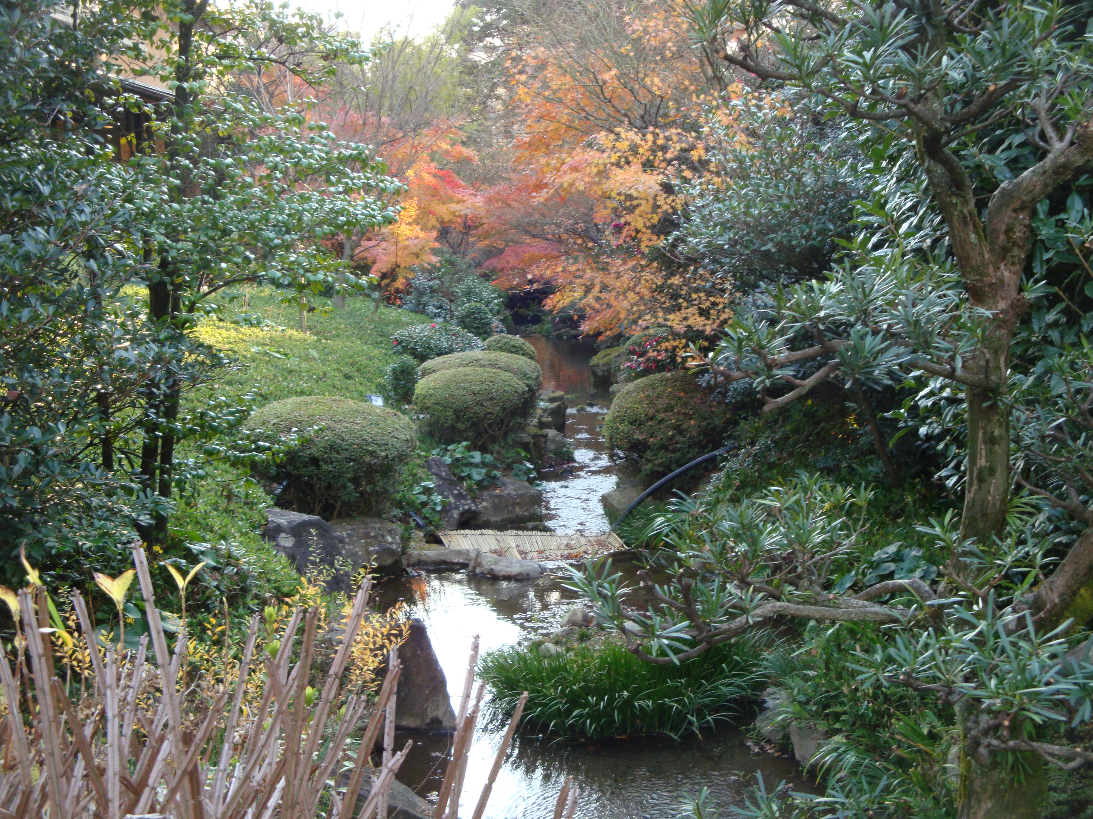 Chinzan-so Garden, Tokyo, Japan